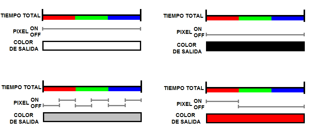 Generación del color en TMOS.